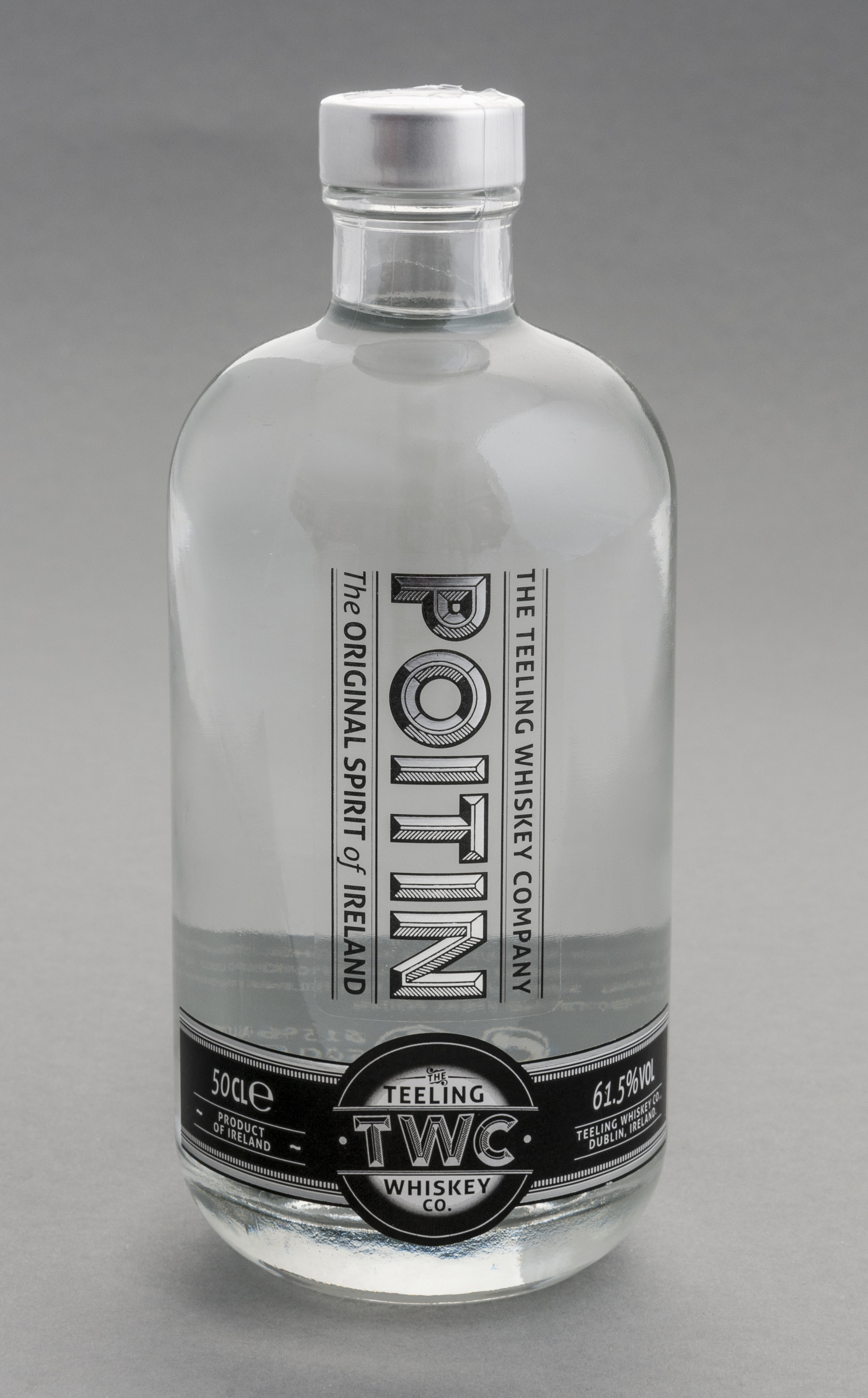 Bottle Poitin Whiskey from Ireland